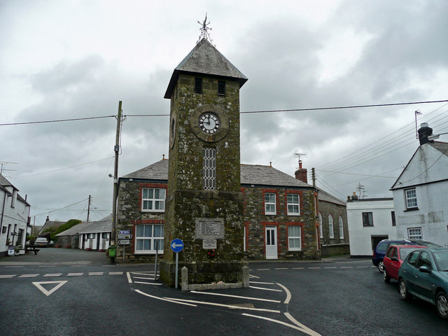 Clock Tower, St Teath